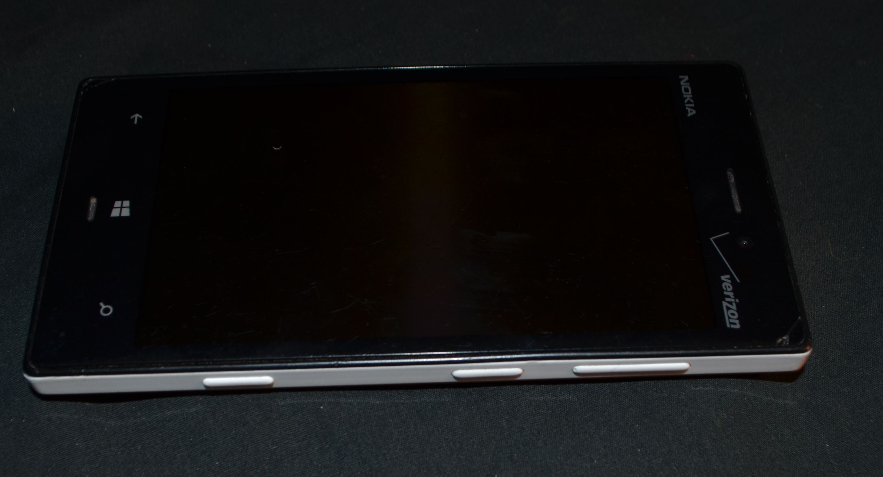 Macro of Nokia Lumia 928 Windows Phone article for improvement since 2013. Note:Replace image with white background.